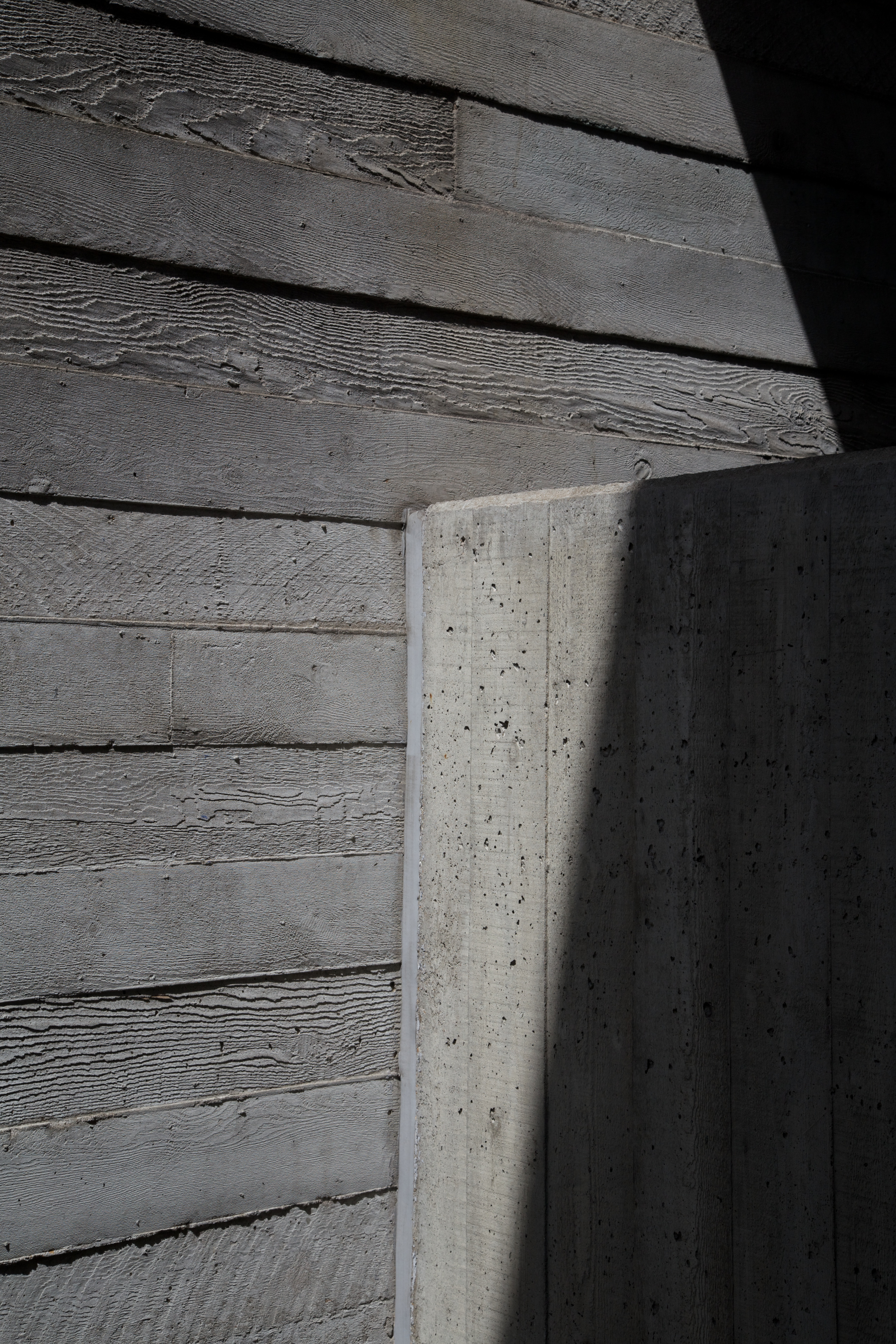 Royal National Theatre Wikidata has entry Q511108 with data related to this item.